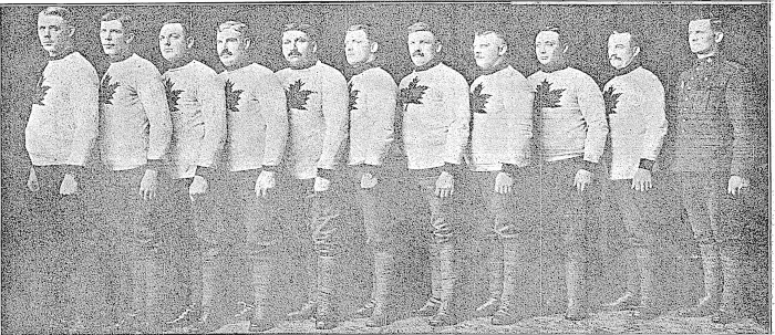 Canadian Heavy-weight Tug-of-War Team - Members of the 146th Battalion, Canadian Expeditionary Force of Kingston, Ontario, Canada are the heaviest tug-of-war team in the Allies. Together weighing 2314 lbs. Caption:A TEAM OF CANADIAN HEAVY-WElGHTS.—Members of the 146th Battalion of Kingston, Ontario, Canada, said to be the heaviest tug-of-war team in the armies of the Allies. With their captain they turn the scales at 2314 lbs., averaging 15 st. each. Their names and weights are :—Sergt. H. Filson 221 lbs., Sergt. J. McGrath 190 lbs,, Corpl. C. Saunders 204 lbs., Pvfe. D. Rae 215 lbs., Pvte. N. Williams 228 lbs., Sergt-Major J. Crawford 206 lbs., Corpl J. Norton 197 lbs,, Sergt. H. Titford 200 lbs , Pvte. J, Hingey 203 lbs., Pvte. J. Ewart 175 lbs., Sergt.-Major Fisher (team captain) 175 lbs.